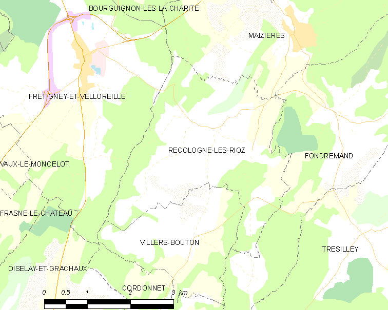 Map of French municipality